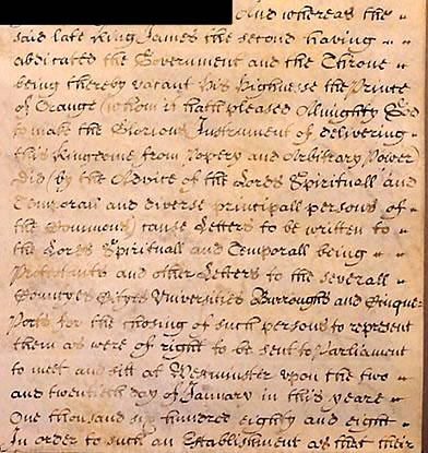 This is a closeup of the top portion of the English Bill of Rights of 1689.